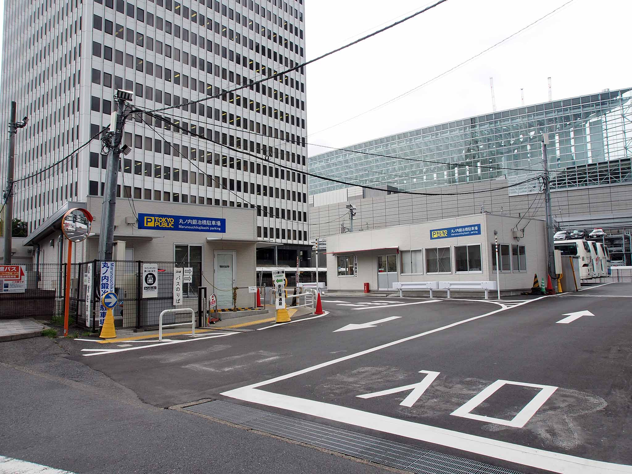 Marunouchi Kajibashi Parking Lot for buses, located at neighbor of Tokyo Station and Ginza, operated by Tokyo Metropolitan Public Corporation for Road Improvement and Management.